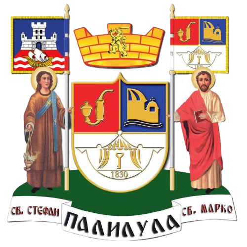 Great Coat of Arms of the city and municipality of Palilula, Serbia